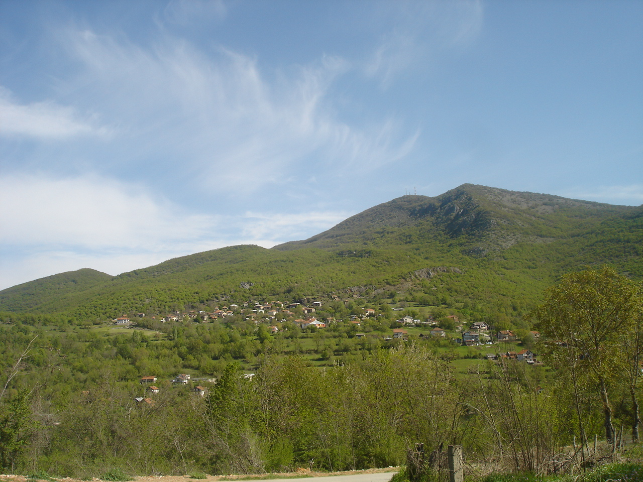 village of Tašmaruništa, in Drimkol region, near Struga, Macedonia